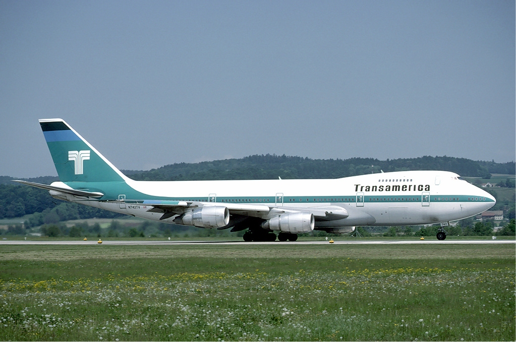 A Boeing 747 of Transamerica Airlines at Zurich Airport